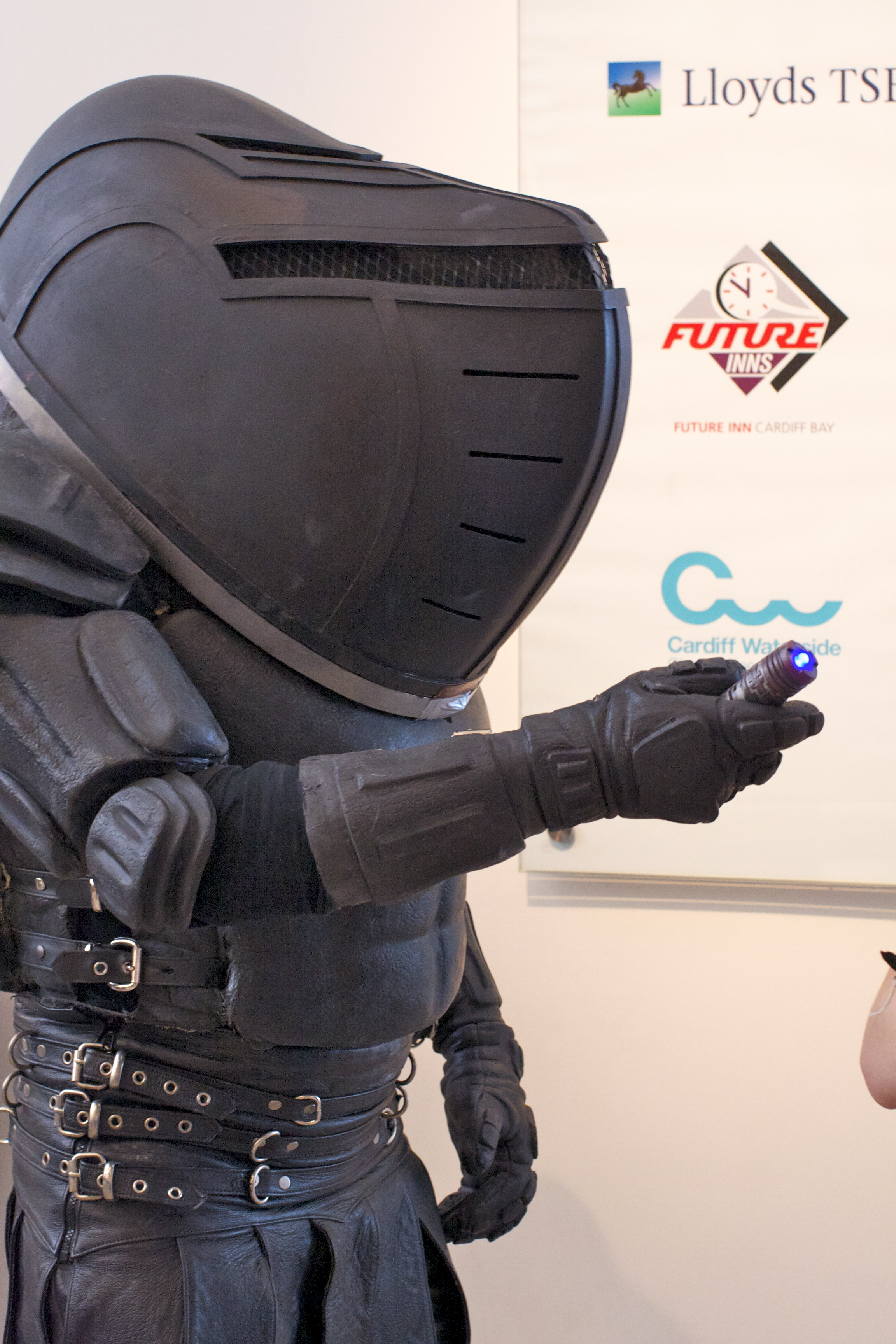 Doctor Who Convention 2012, Judoon side Doctor Who Convention 2012